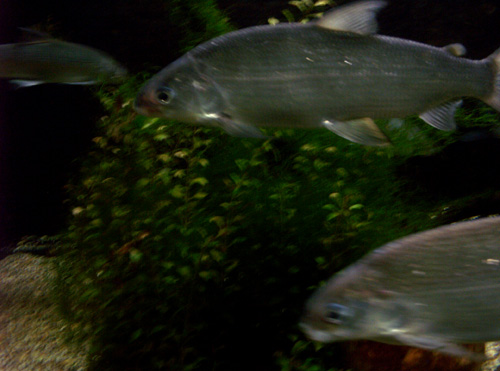 Lake whitefish at the Belle Isle Aquarium in Detroit, Michigan photo by rmhermen